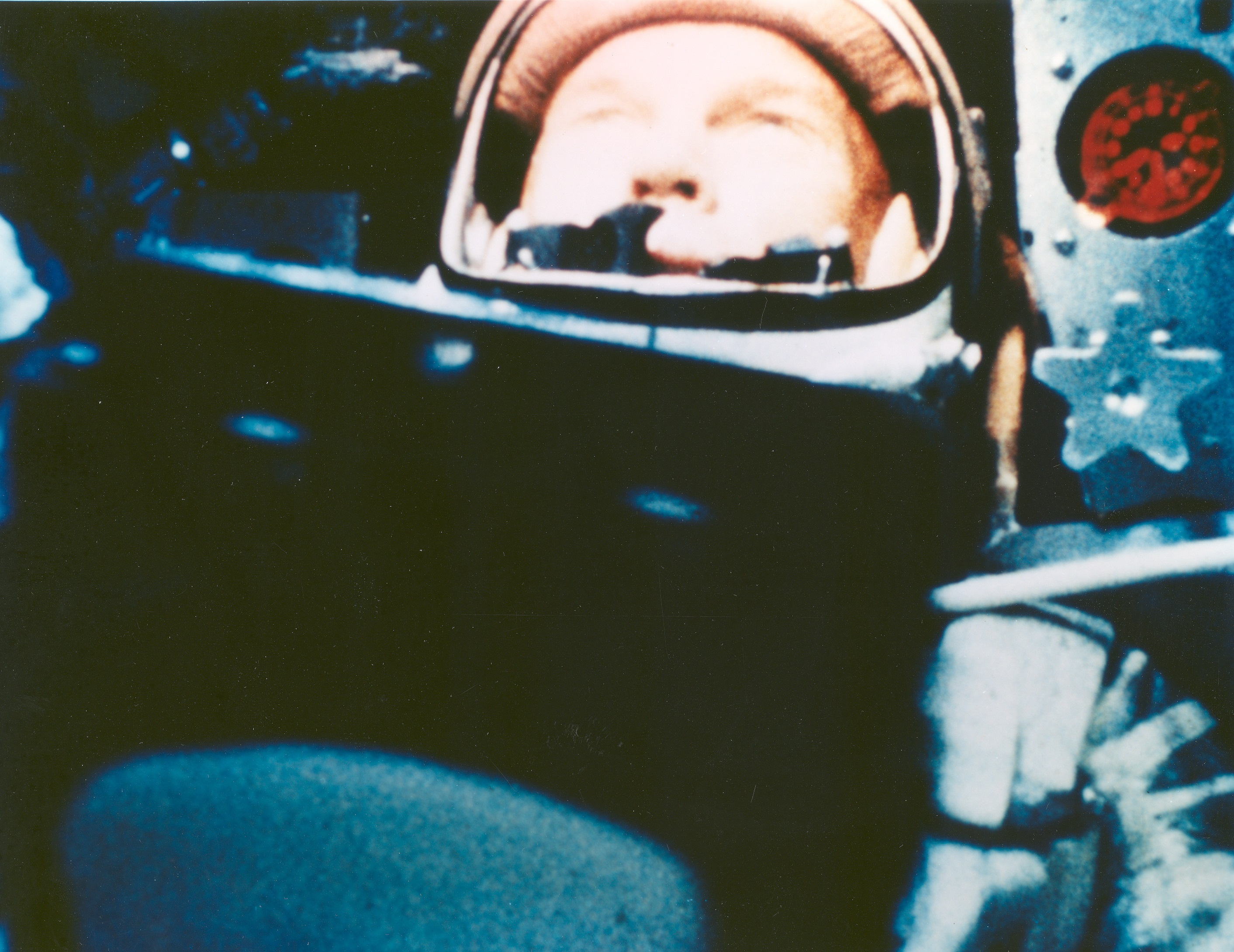 A weightless applesauce tube floats free following a snack by astronaut John Glenn in the course of his first orbit during the Mercury "Friendship 7" mission on February 20, 1962.